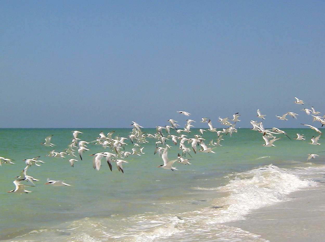 A flock of Royal Terns on Upper Captiva Island. Taken May 2002, Upper Captiva Island, FL USA, by me, User Debivort.